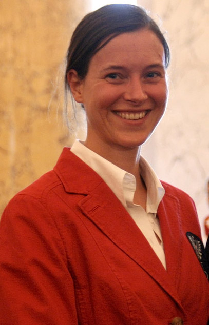 Simone Prutsch at the official farewell of the Austrian team for the 2012 Summer Olympics in London at the ceremonial hall of Hofburg Palace in Vienna.